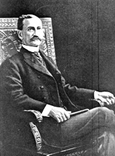 Portrait of Senator William V. Sullivan of Mississippi